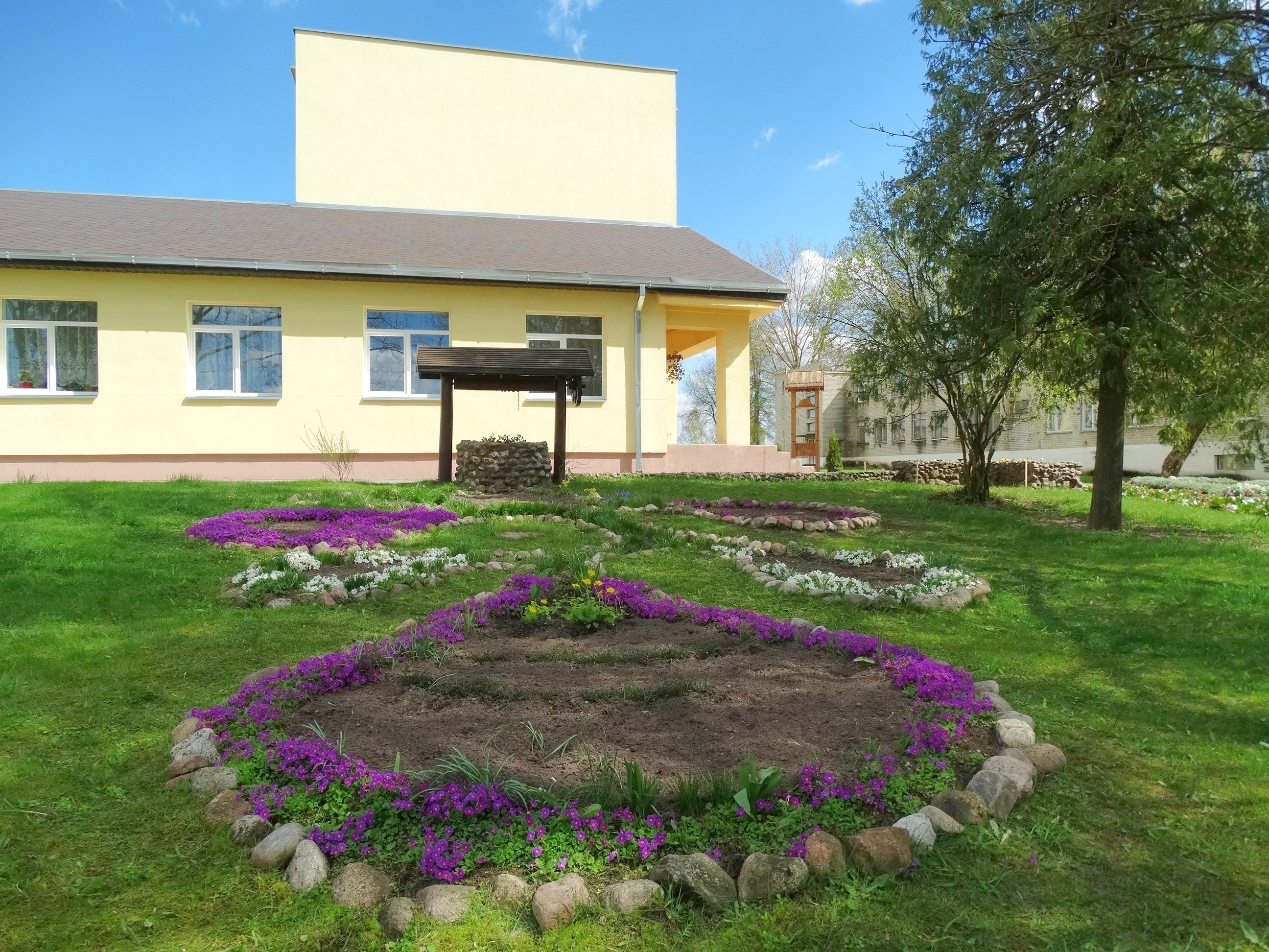 Rytas Gymnasium, Dieveniškės, Šalčininkai District, Lithuania